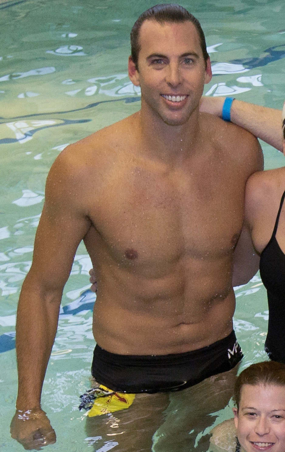 Pool Safely Safer Summer Swimming Kickoff - May 20, 2017 at the Louis L. Valentine Boys & Girls Club in Chicago